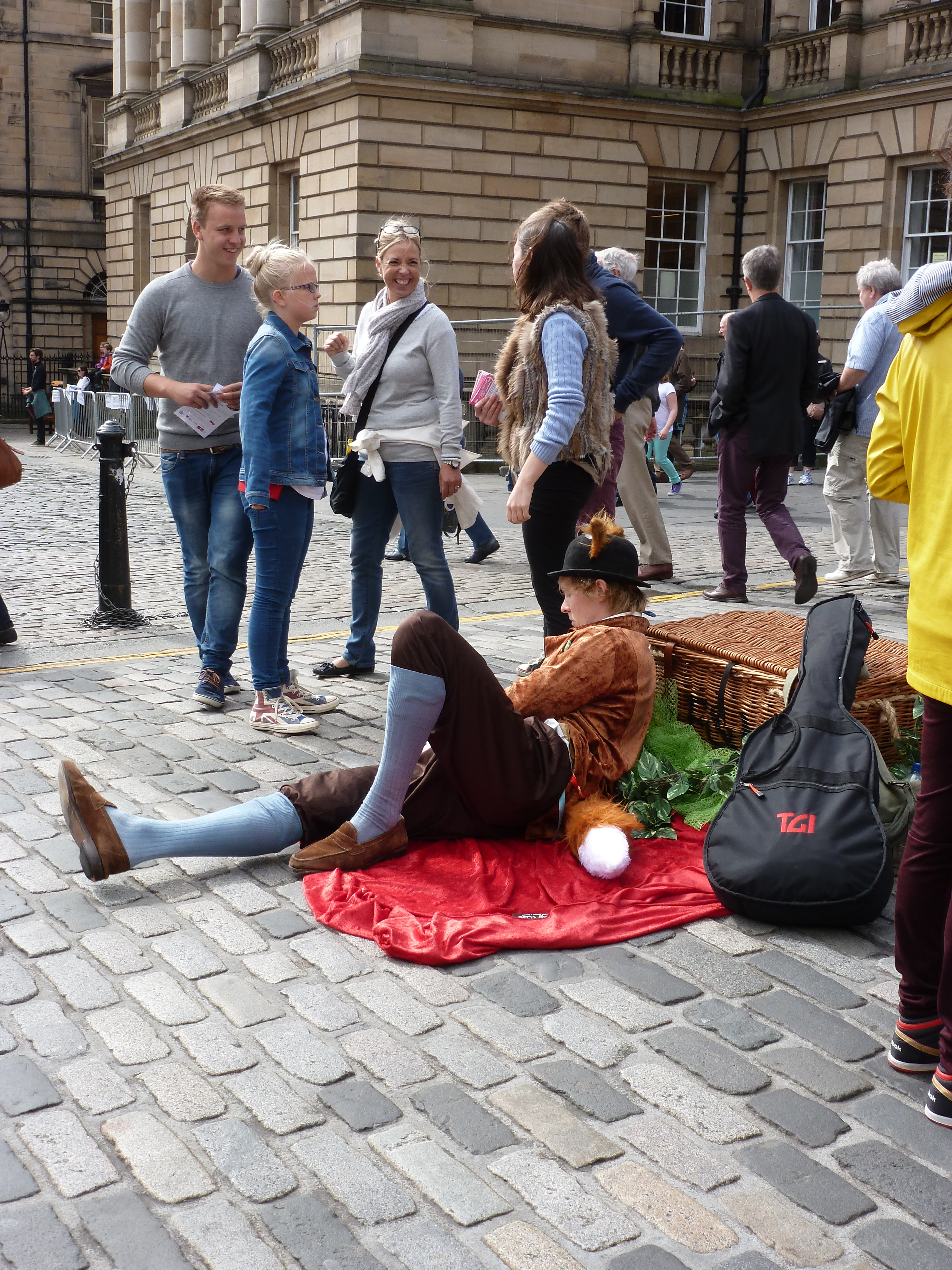 A street performer on High Street advertising for a show, 2013